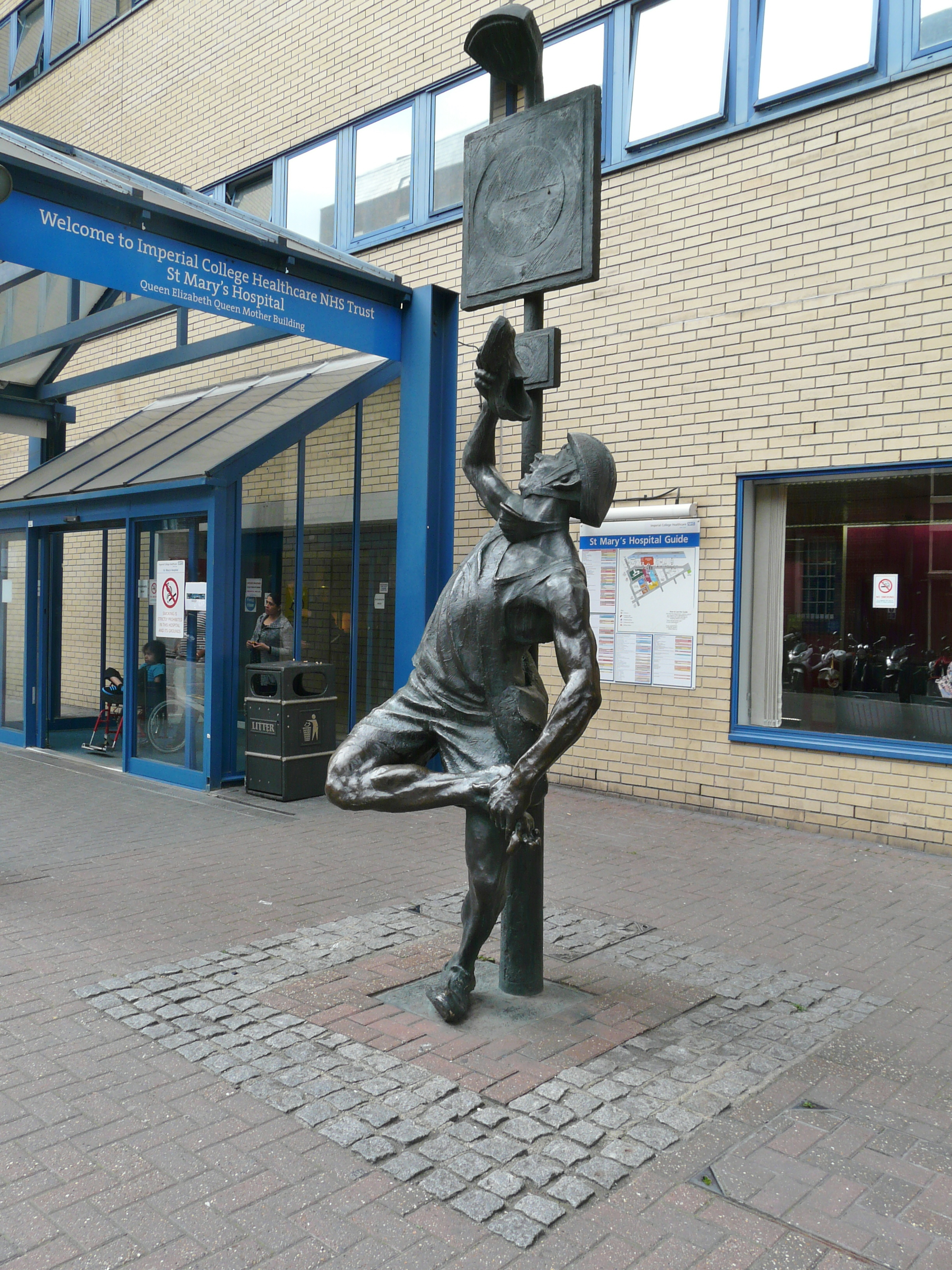 The Messenger (Allan Sly, 1993), St Mary's Hospital, Paddington, London. The making of this file was supported by Wikimedia UK.